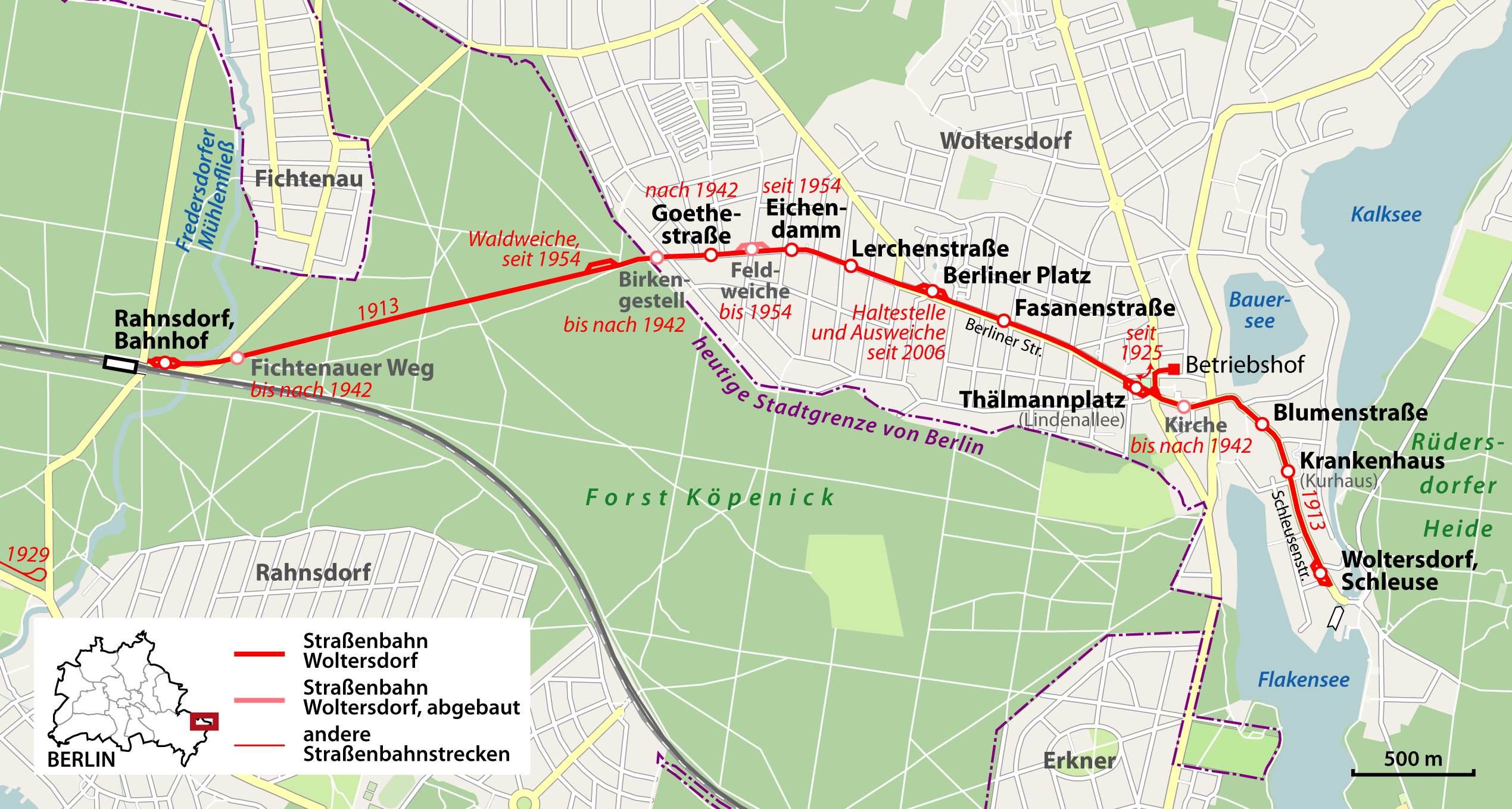 Map of the Woltersdorf tram This map may be incomplete, and may contain errors. Don't rely solely on it for navigation.